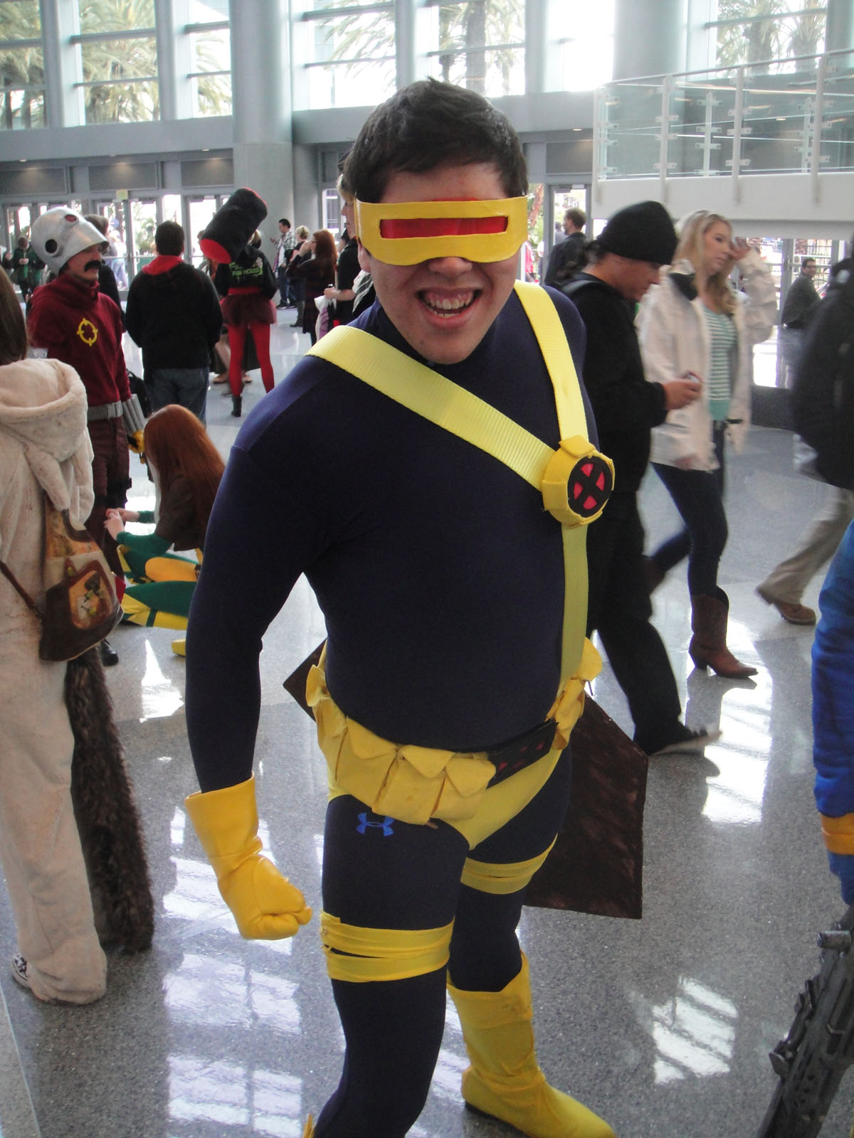 WonderCon 2012 - Cyclops.